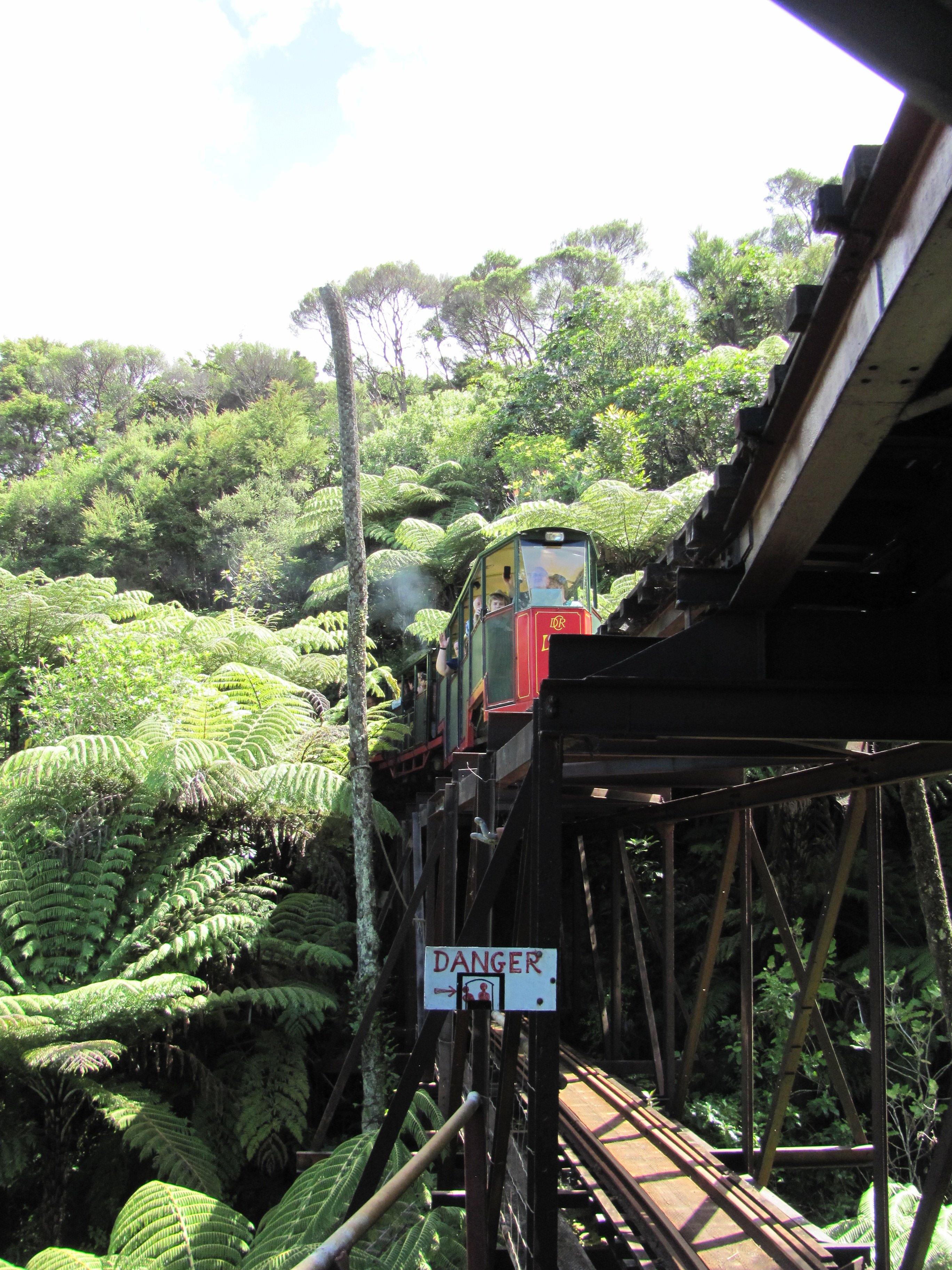 Two storey bridge of DCR